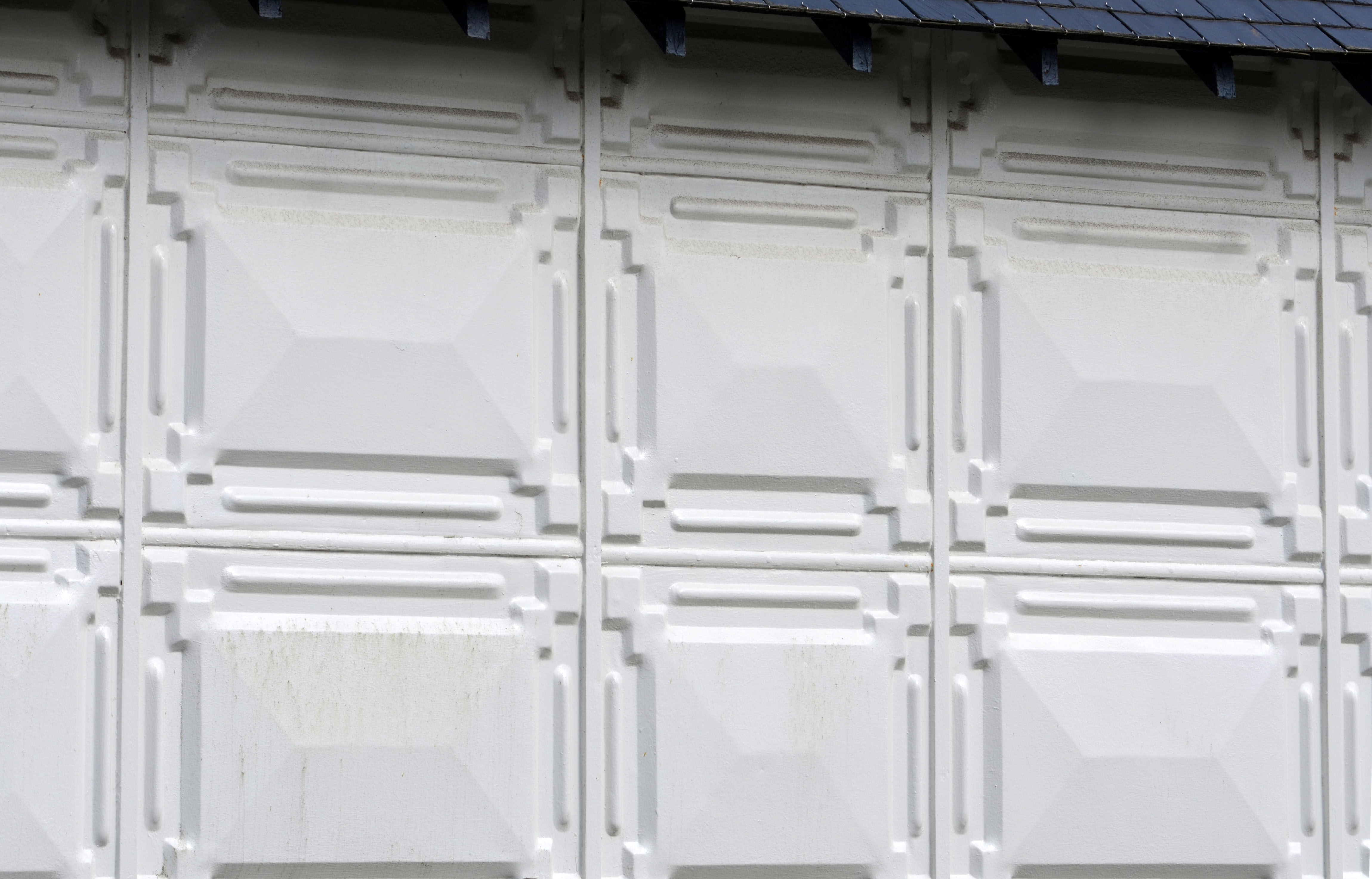 The iron villa, probably designed by the belgian architect Joseph Danly, is a house structure, frame and metal siding, built of iron, 1889-1890. She was ranked monument in January 2004. This is the last house of its kind in France listed in good condition and inhabited; another house of this type is in Poissy, which will be restored in 2019. Source: Article telegram], entitled Morgat. Iron home is getting a makeover July 10, 2009], accessed 2011-08-11